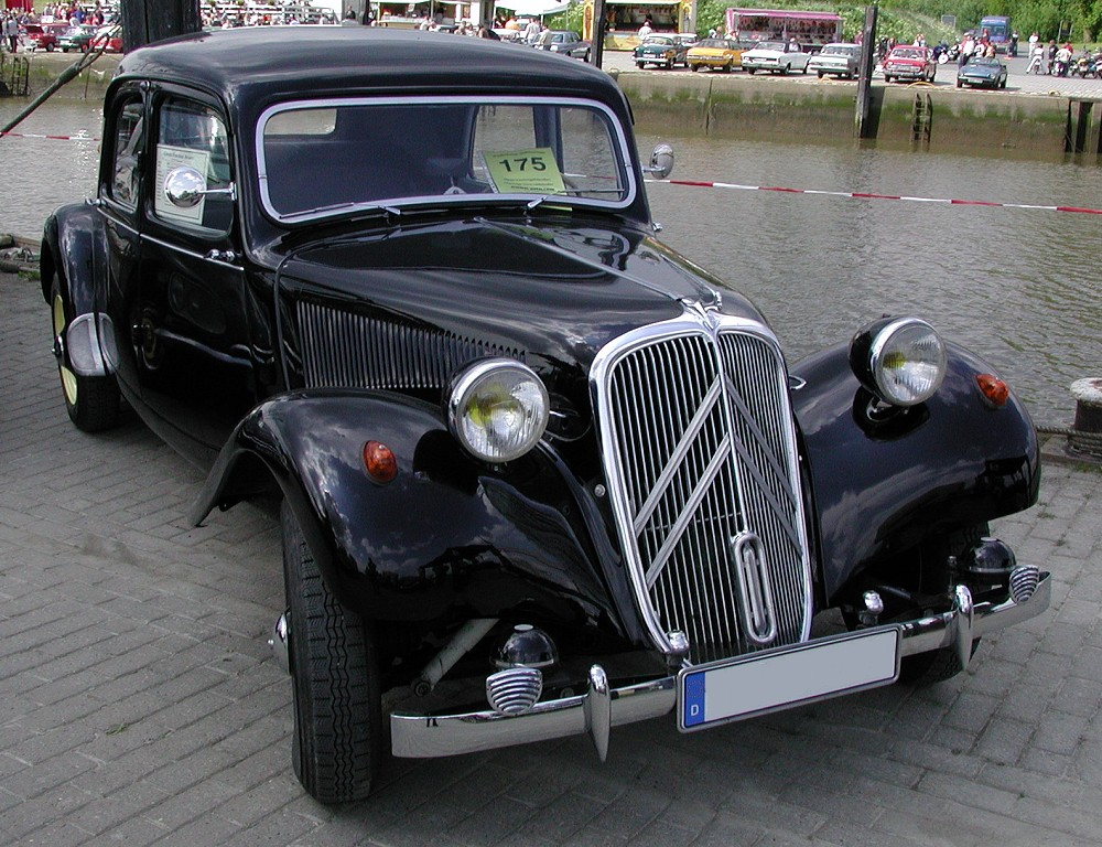 Citroën Traction Avant 1954